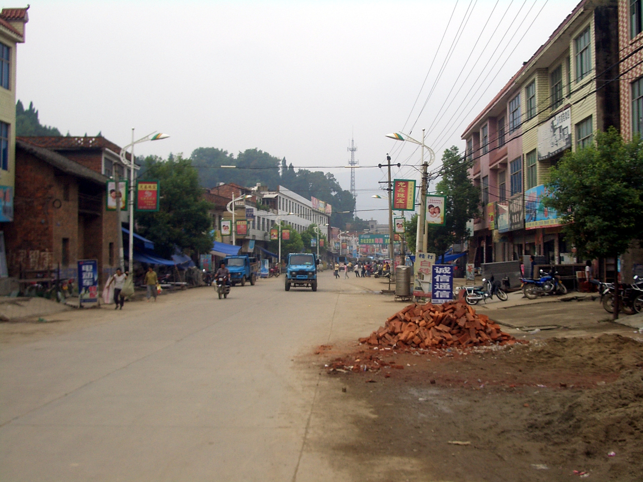 On the main street of Longgang Zhen (the town) in Yangxin county. Somewhat unusually for the towns in this area, this street is not a state highway, as the combined G106/G316 Highway bypasses the town.